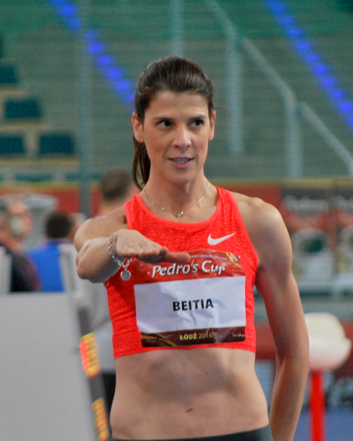 Ruth Beitia, high jumper from Spain, Pedro's Cup Łódź 2016